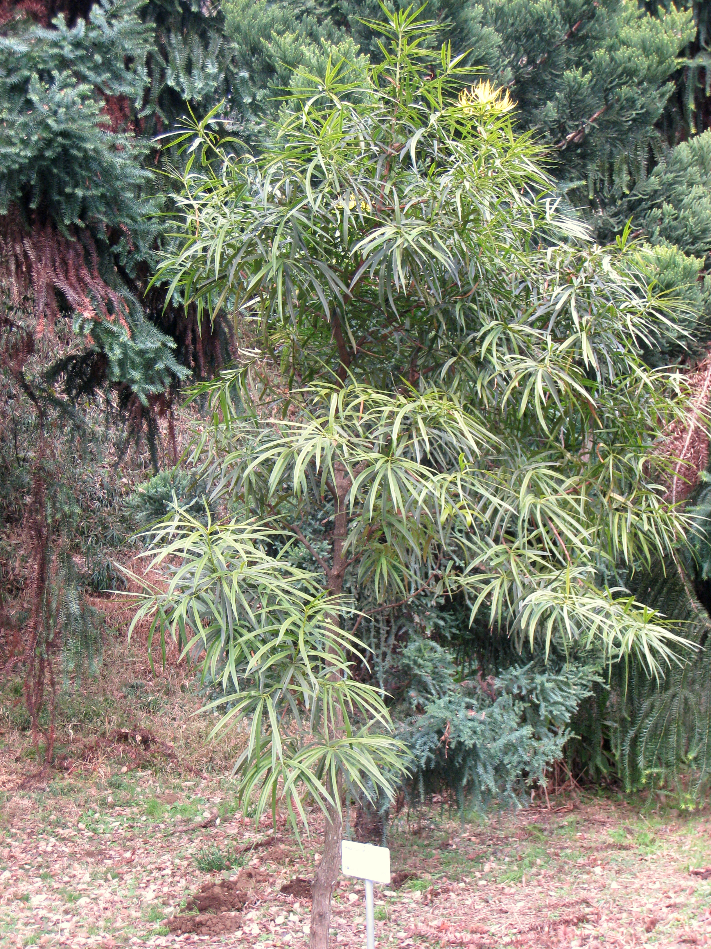 Podocarpus neriifolius in Koishikawa Botanical Gardens, Tokyo, Japan.